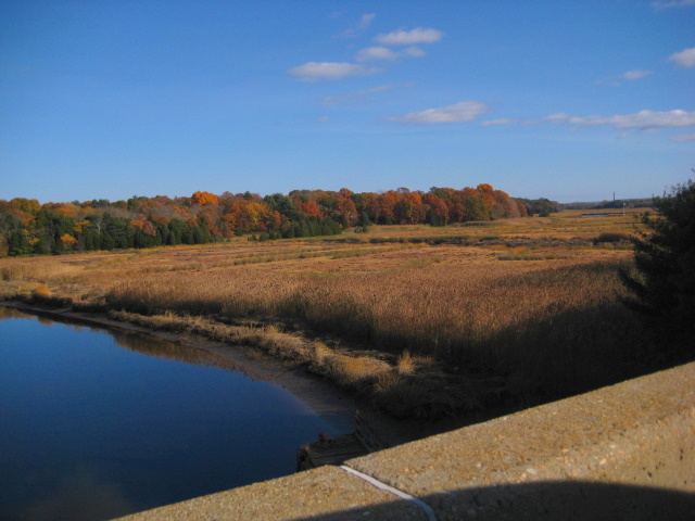 Photo of Jones River winding through marsh near Kingston Bay.